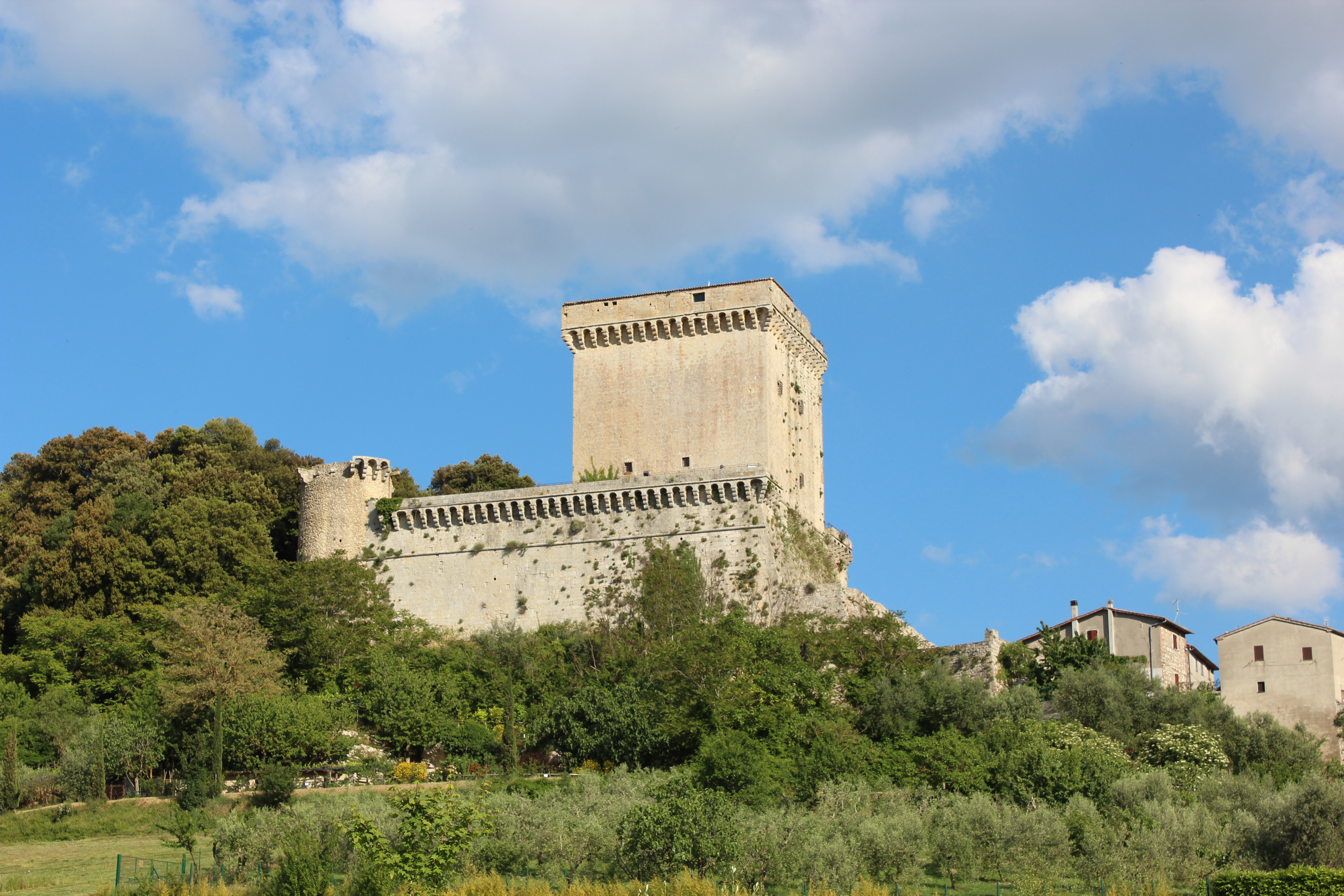 View of the Castle Castello di Sarteano in Sarteano, Province of Siena, Tuscany, Italy